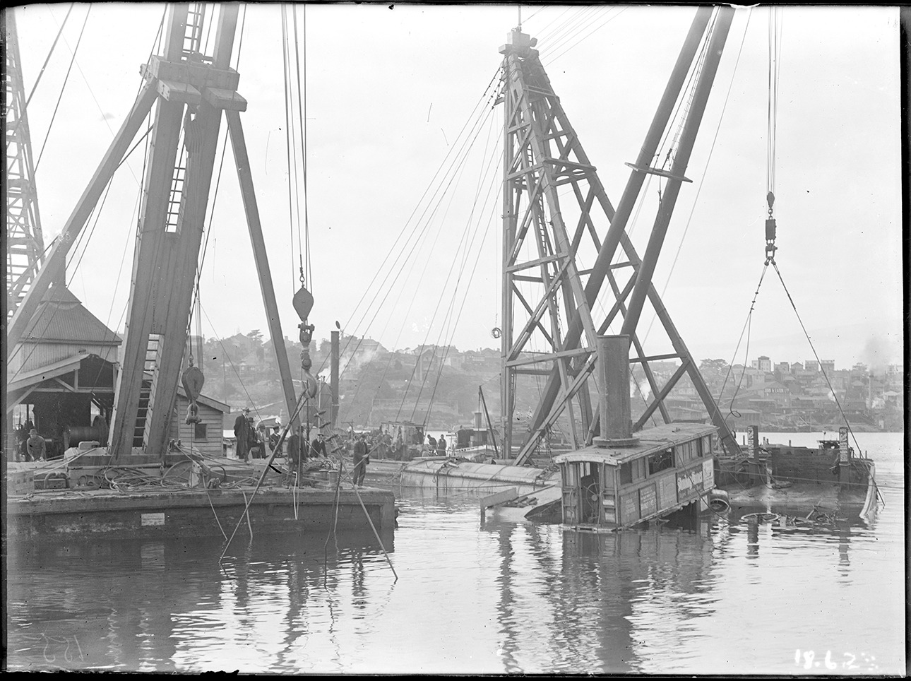 File 078/078215 DESCRIPTION Two steam sheerlegs are lifting the sunken ferry BENELON. Note ferry cabin and funnel at right. DATE 18 June 1923 FORMAT Digital image only. Many of the images in this collection are available as hi-res jpegs. Please contact the City of Sydney Archives (archives@ .au) on a case by case basis. RECORDSERIES Sydney Reference Collection CITATION Graeme Andrews 'Working Harbour' Collection: 78215 GKAC PROVENANCE City of Sydney Archives NOTES S105211